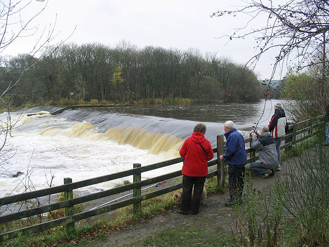 The cauld by the Philiphaugh Salmon Viewing Centre Overnight rain has swollen the Ettrick Water, a tributary of the River Tweed, and improved conditions for salmon to progress upstream to breeding grounds. The cauld, a large weir built in the 1850s to channel water to Selkirk's mills, blocks the way for the salmon and they can only get upstream by using the fish ladder, a special channel in the middle of the cauld. The Tweed Foundation installed a fish counter here in 1998 and approximately 3000 fish have passed through the ladder for the month of October. The Atlantic salmon will jump the ladder here in May and June and again from mid September to the end of November. Plenty of fish were jumping when I was here and they can also be watched on a big screen at the Philiphaugh Salmon Viewing Centre in the old threshing barn at nearby Old Mill Farm. For more information